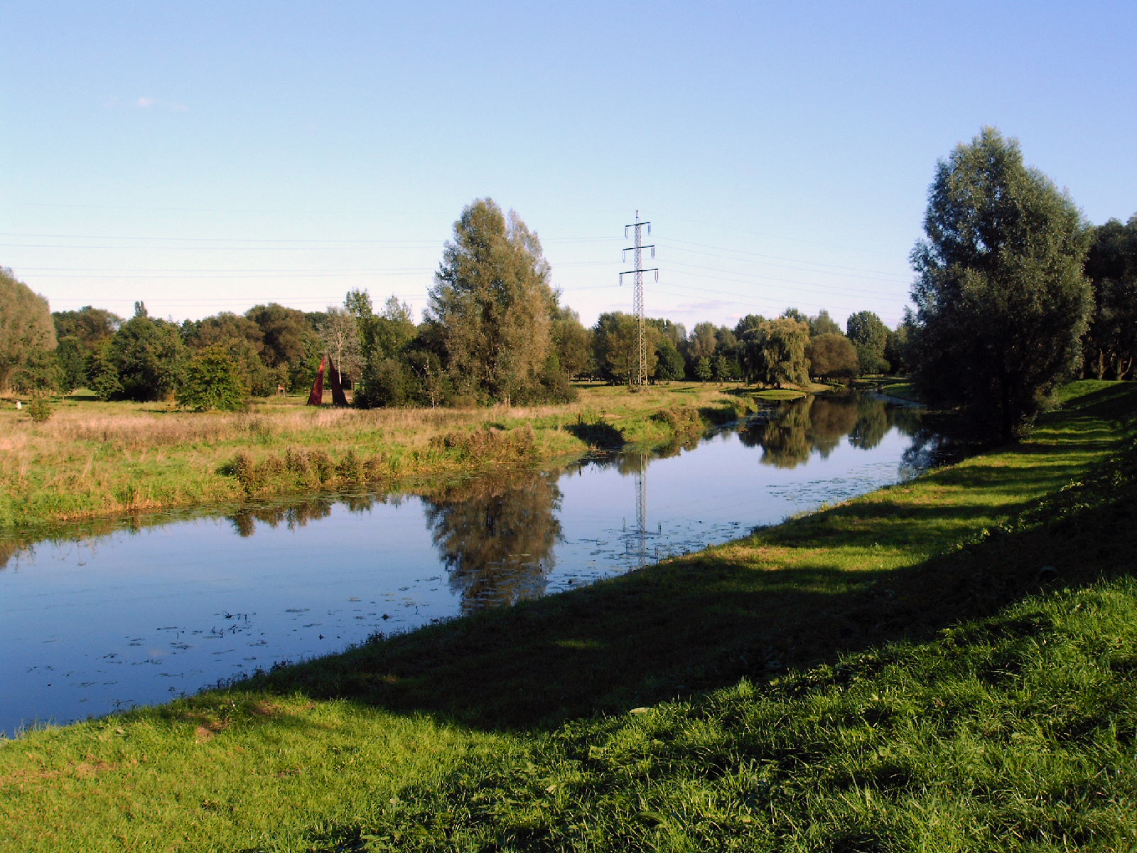 Vechtecreek at Schüttorf